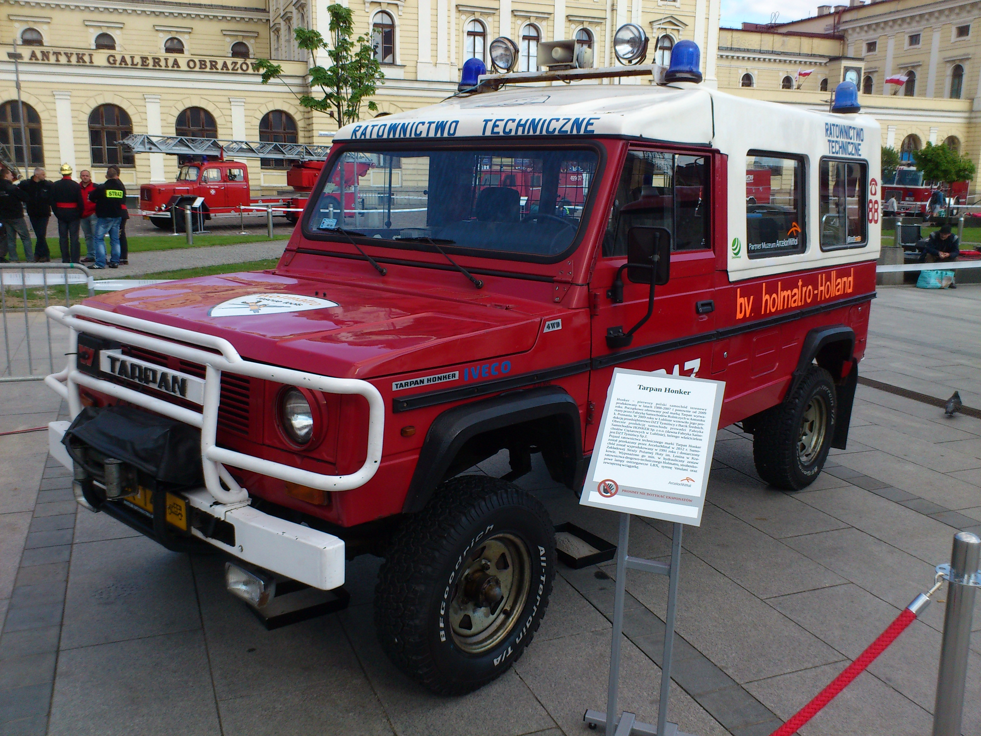 SLRt FSR Tarpan Honker from Muzeum Ratownictwa during "Straż pożarna wczoraj i dziś" exhibition on Jeziorańskiego square in Kraków. This fire engine served in one of the SOPiRG ArcelorMittal Polska fire fighting units.